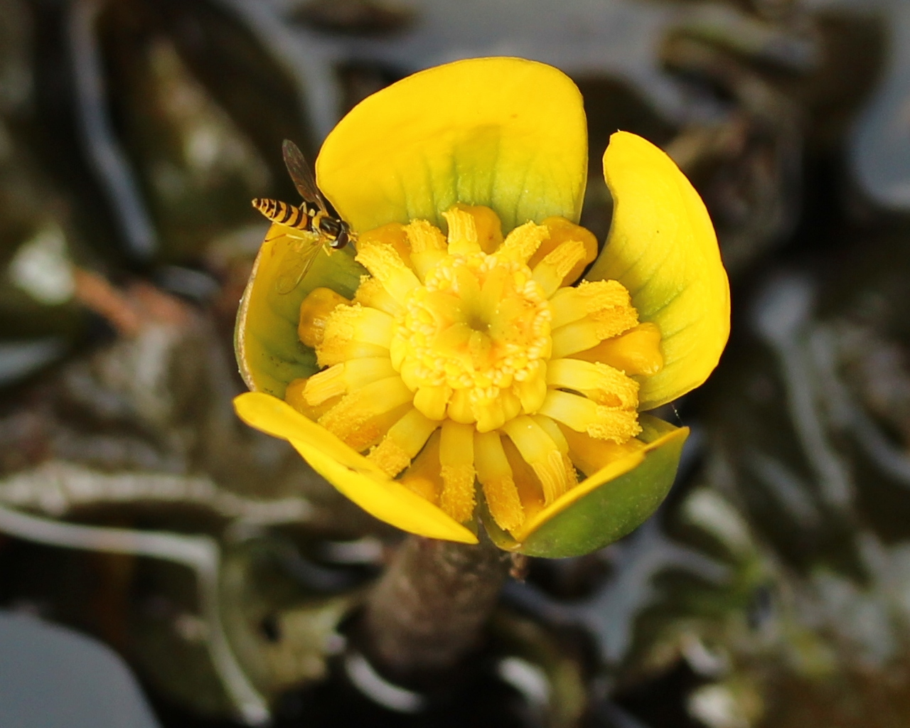 Nuphar subintegerrimum and hover fly